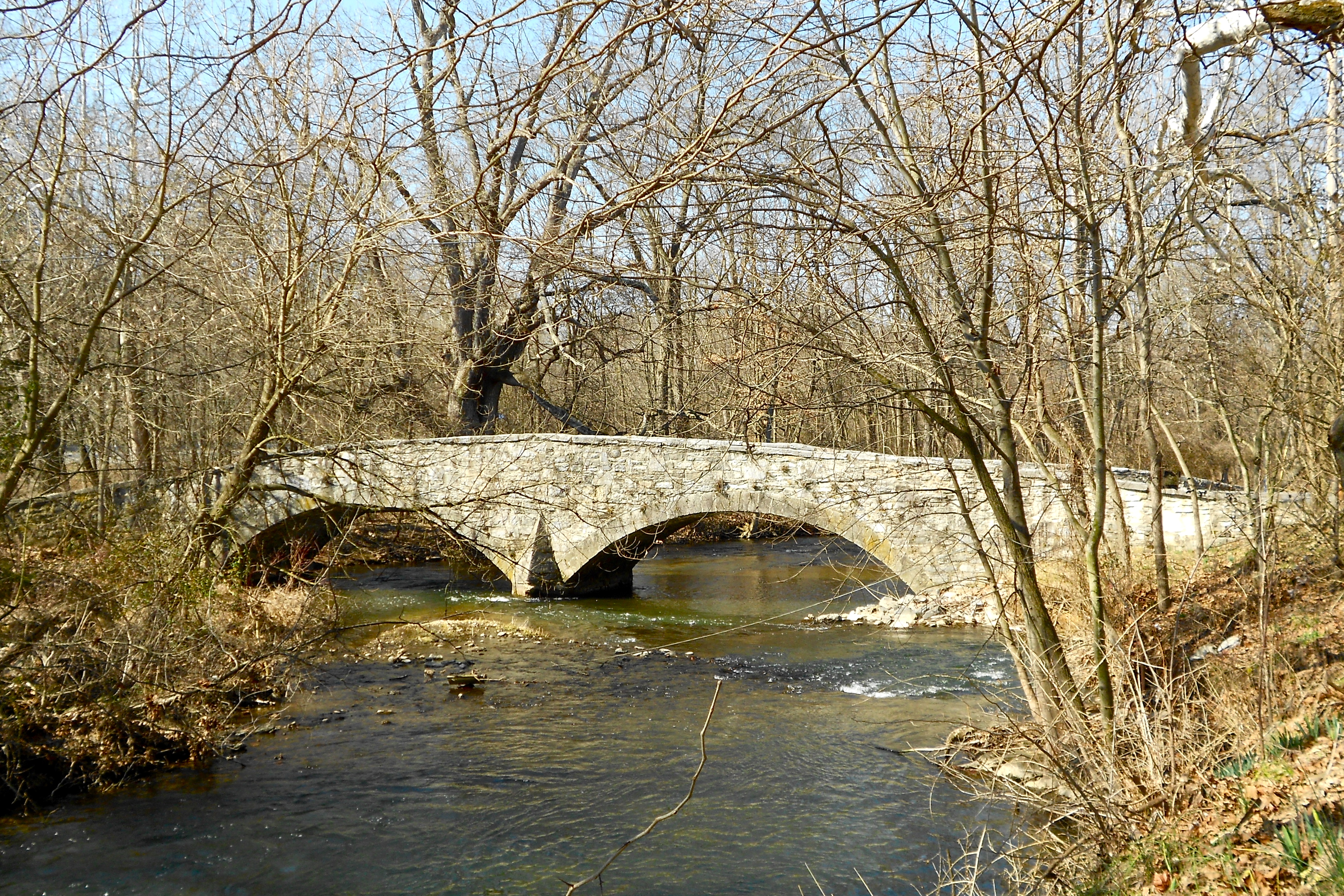 Welty's Mill Bridge on the NRHP since January 6, 1983. Located south of Waynesboro just off Pennsylvania Route 997, Washington Township, Franklin County, Pennsylvania. Built 1856 on Little Antitiem Creek - east branch.